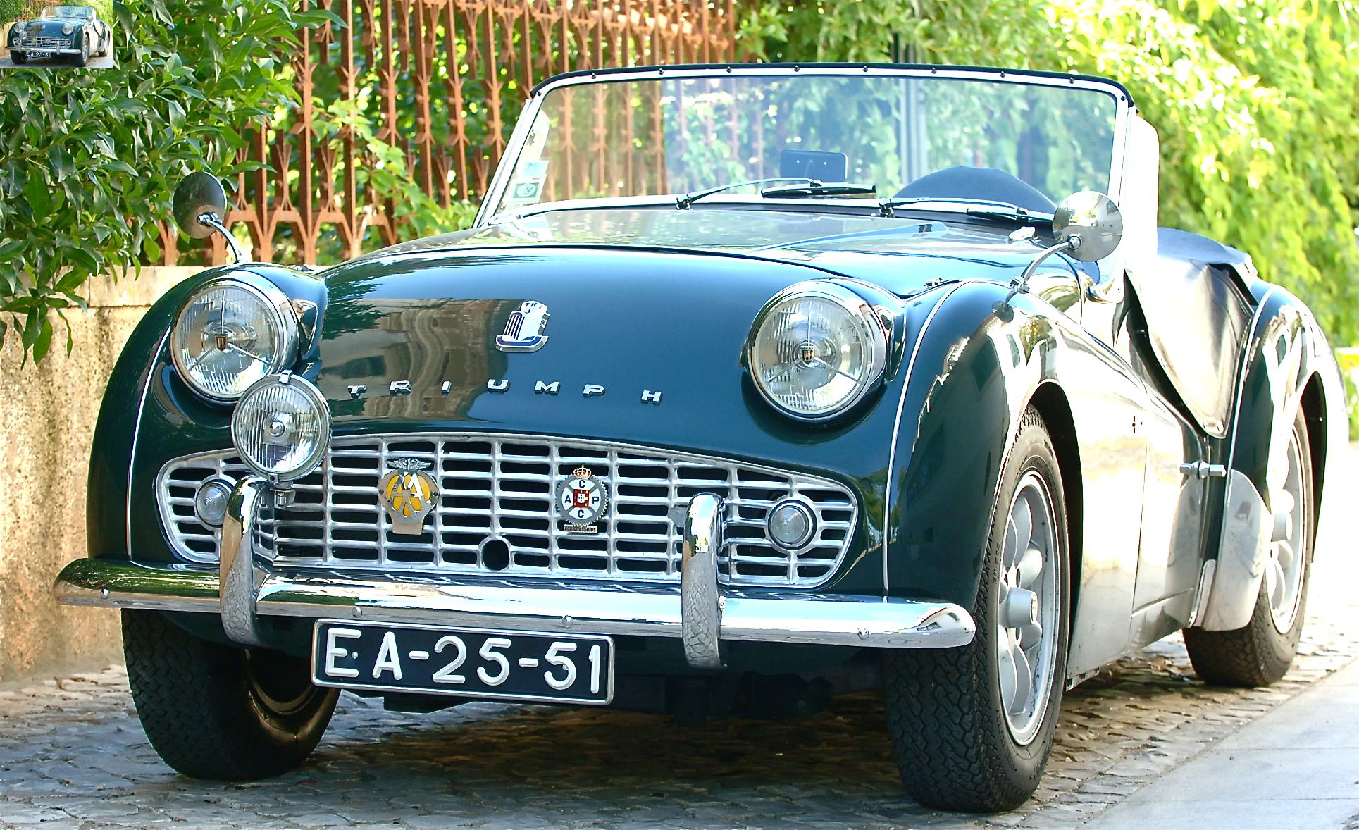 Triumph TR3 in Cascais